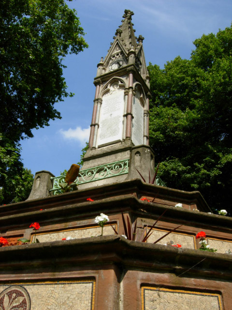 The Burdett-Coutts Memorial Sundial Showing some of the detail of this elaborate sundial designed by George Highton of Brixton and unveiled in 1879 by Baroness Burdett-Coutts.